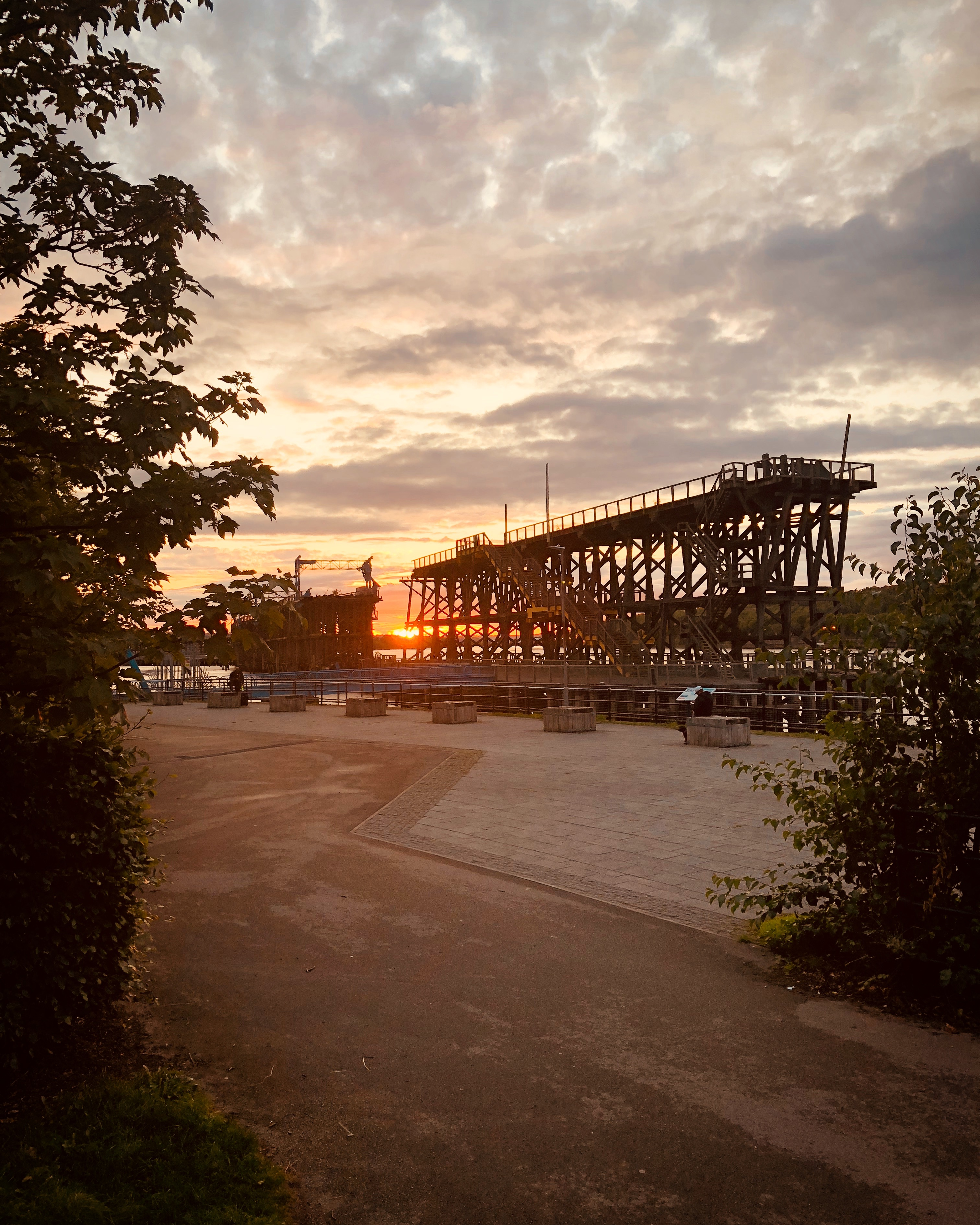 dunston staithes